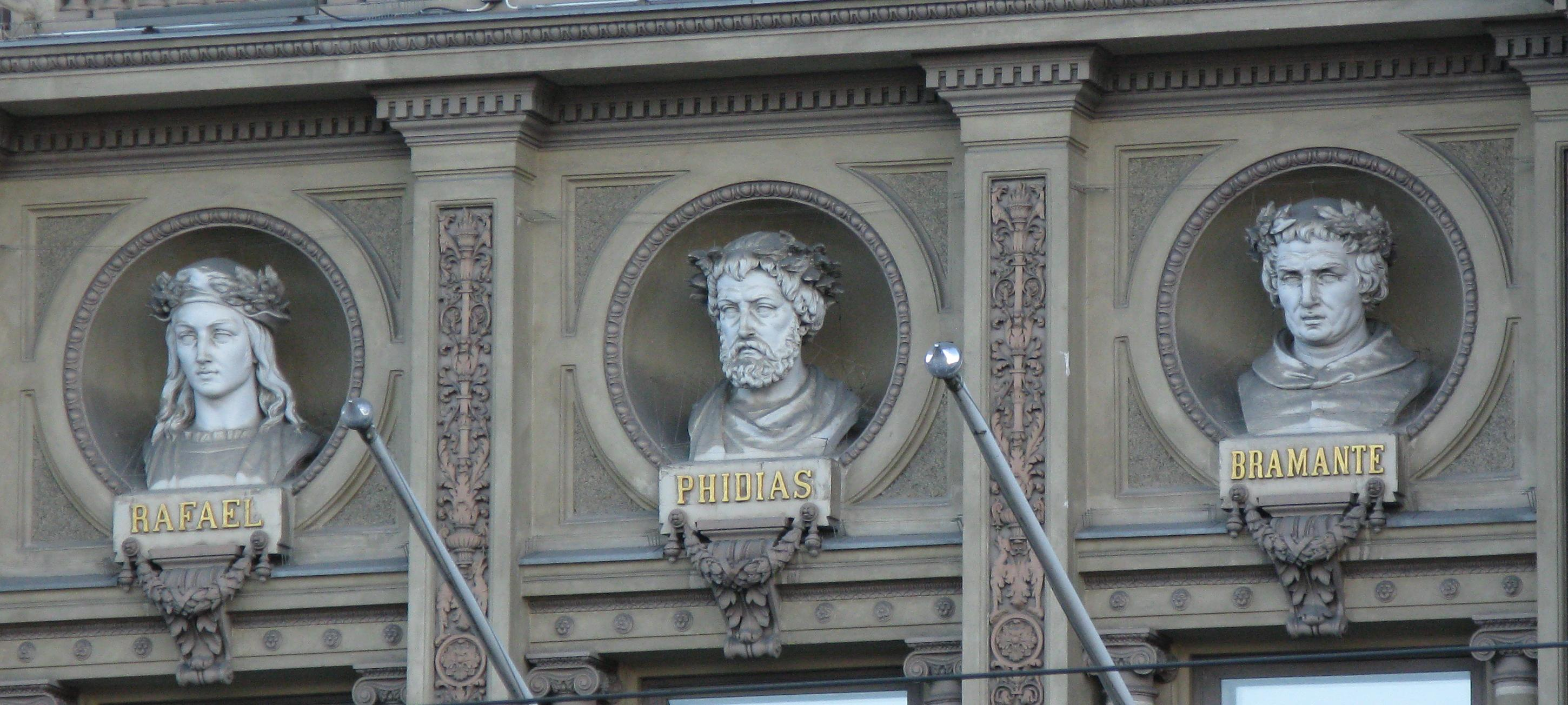 Part of the facade of the Ateneum art museum, Helsinki, Finland